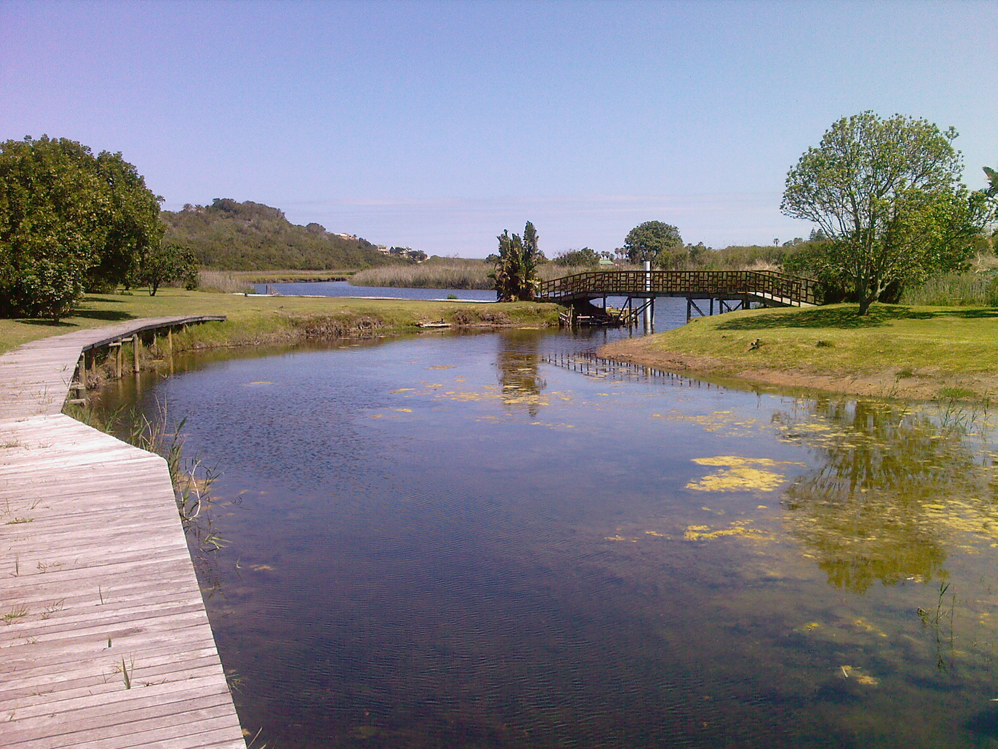 Wilderness National Park. Wilderness National Park, Ebb and Flow campsite, Wilderness.